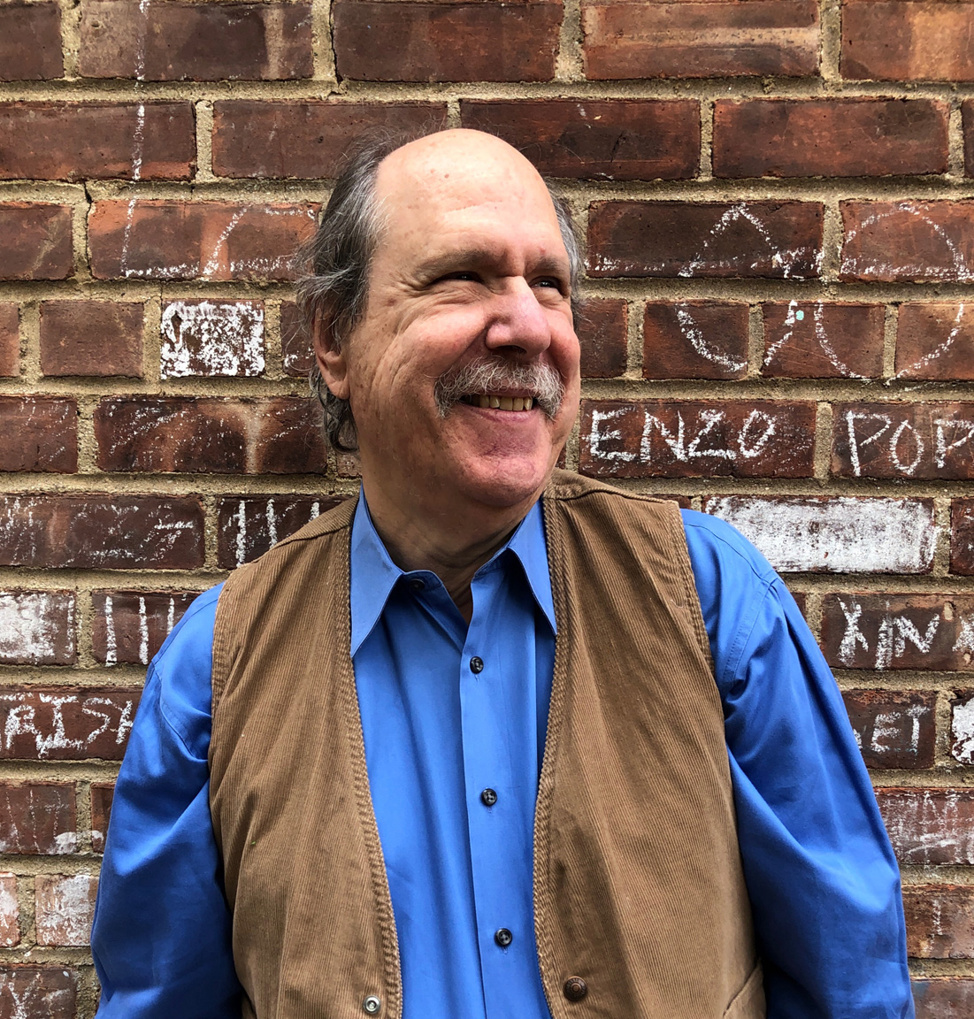 photographed outside of Children's Learning Center in Manhattan (NYC) by Levinson's daughter, Molly Vozick-Levinson